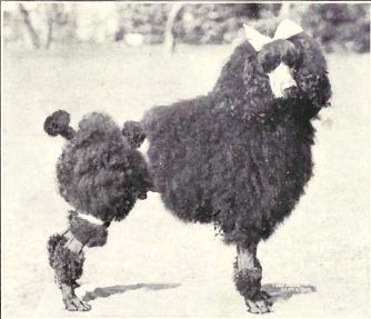 Non-Corded Poodle from 1915